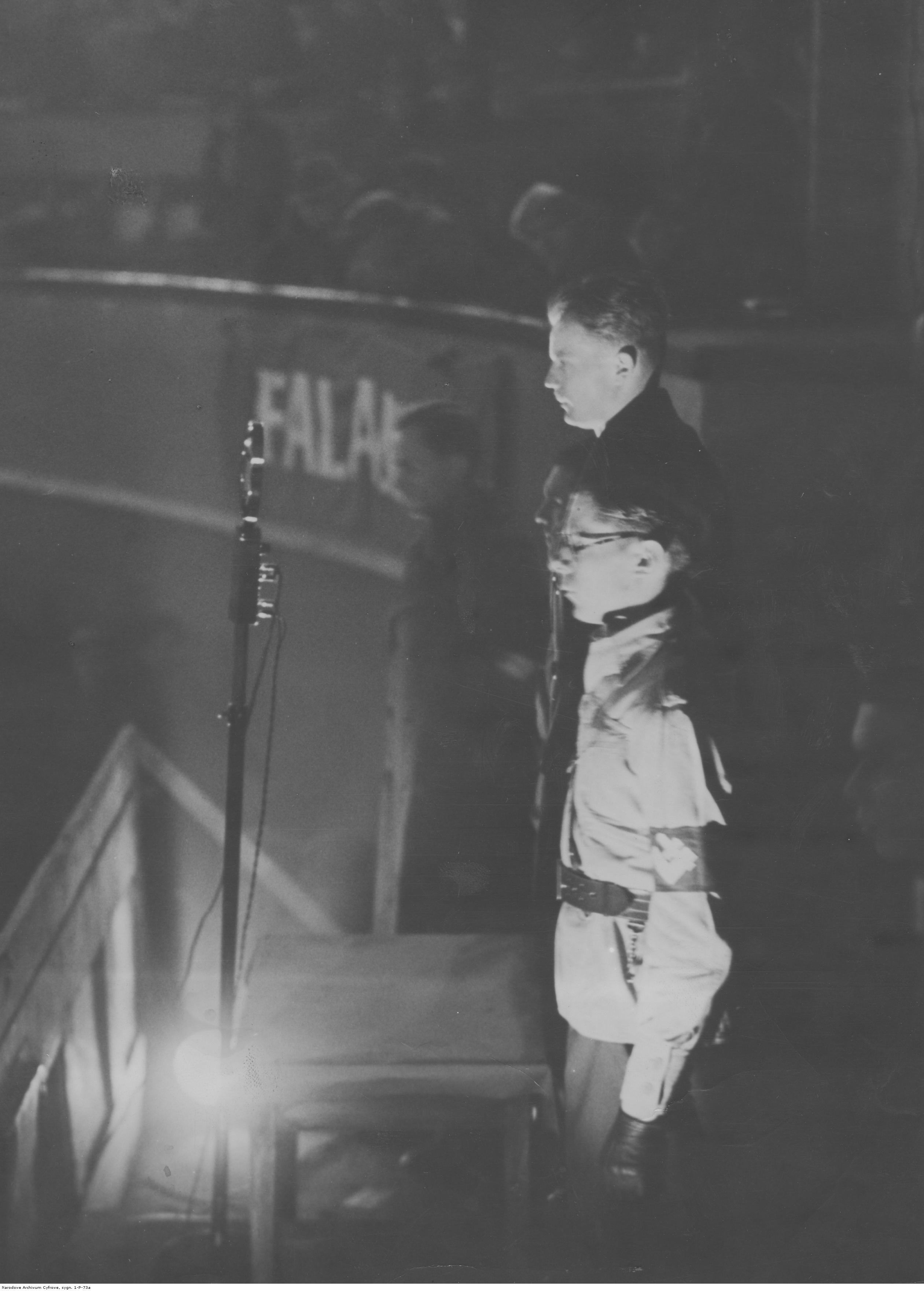 Speech by National Radical Camp "Falanga" leader Bolesław Piasecki 1937-11-28